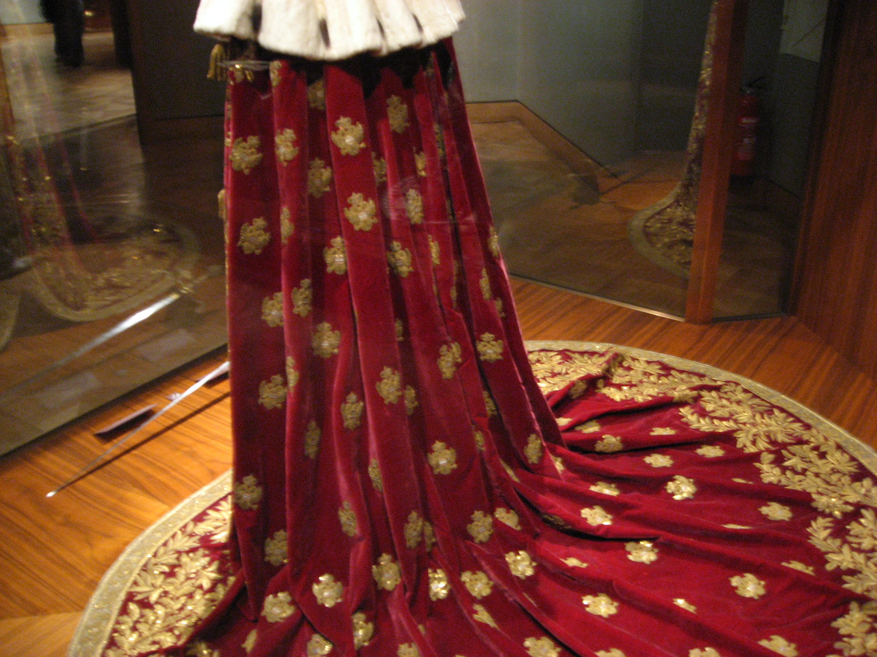 The mantle of the Austrian Empire Design: Philipp von Stubenrauch (1784-1848) Execution: Johann Fritz, Master Gold Embroiderer Vienna, 1830 Red and white velvet, gold embroidery, sequins, ermine, whit silk 276 cm long SK Inv. No. XIV 117